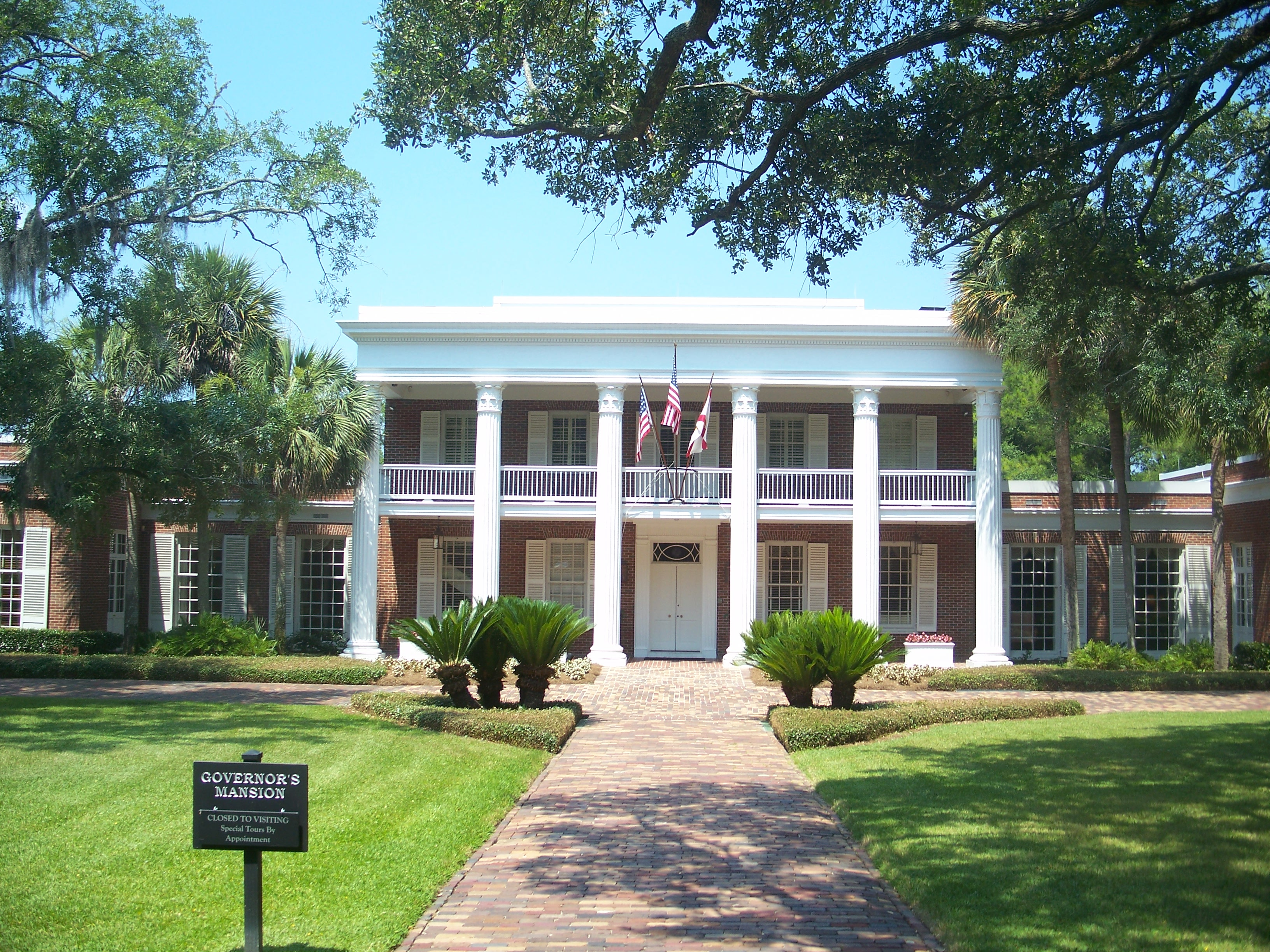 Tallahassee, Florida: Florida Governor's Mansion